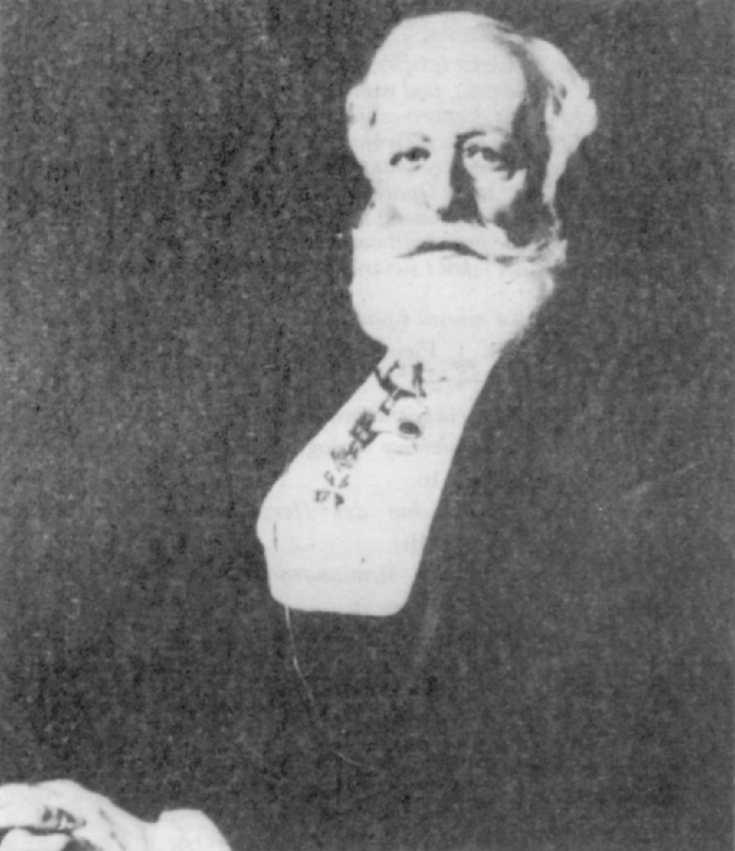 Hugo II Henckel von Donnersmarck (1832–1908).